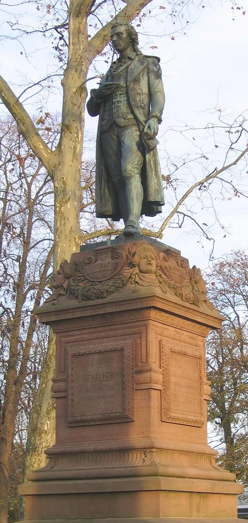 Ernst Rau's 1876 Monument to Friedrich Schiller in Marbach am Neckar, Germany.